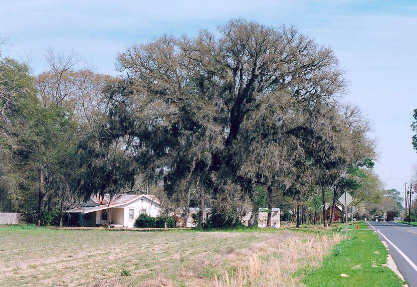 Live Oak tree in Collins. This photo shows the scale of the tree's growth. Photo taken by Geogre, and I hereby give it to the public domain.